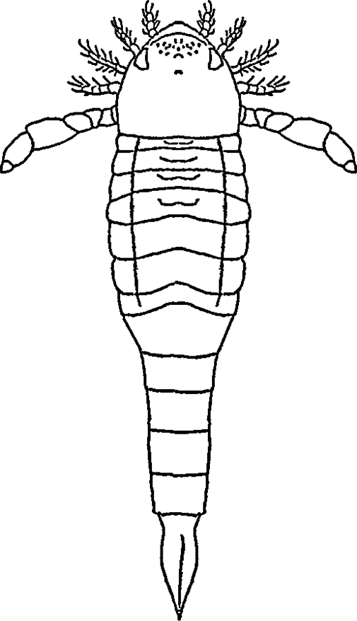 Reconstruction of eurypterid Orcanopterus